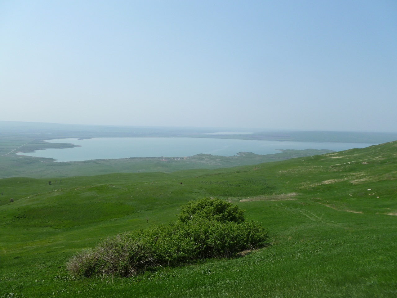 Sengileevsky reservuar